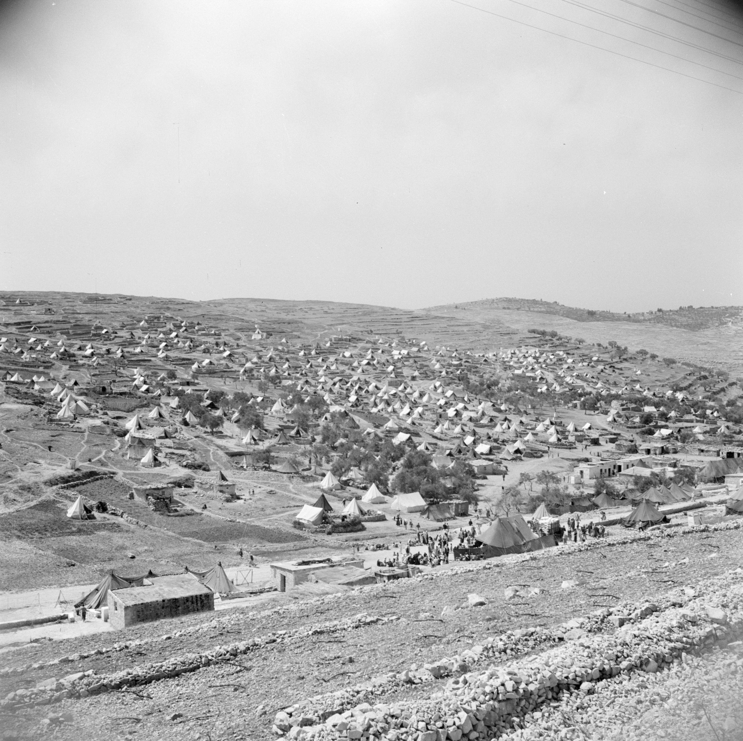 Jalazone Refugee Camp 1950